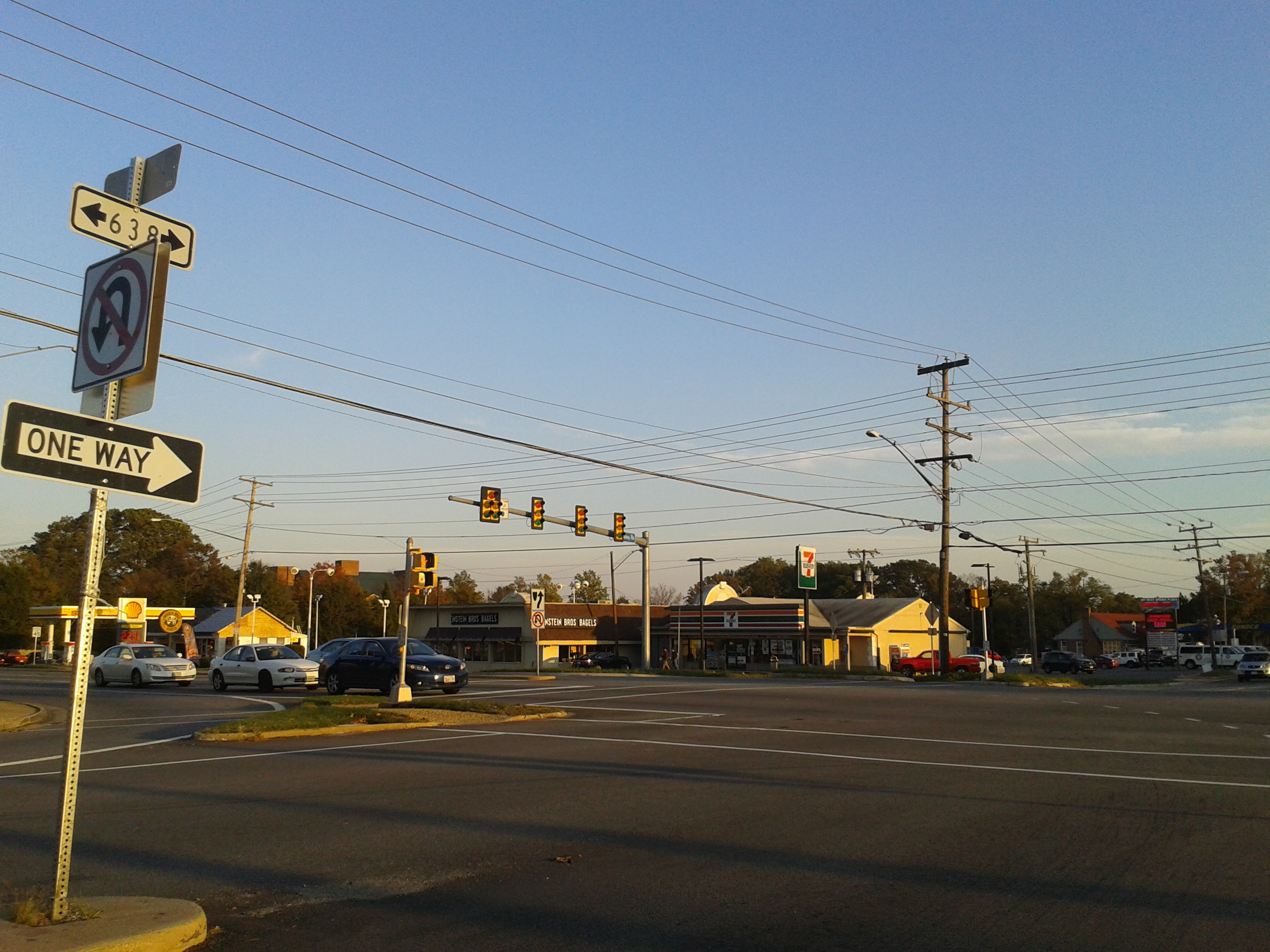 Taken by me in October, 2016